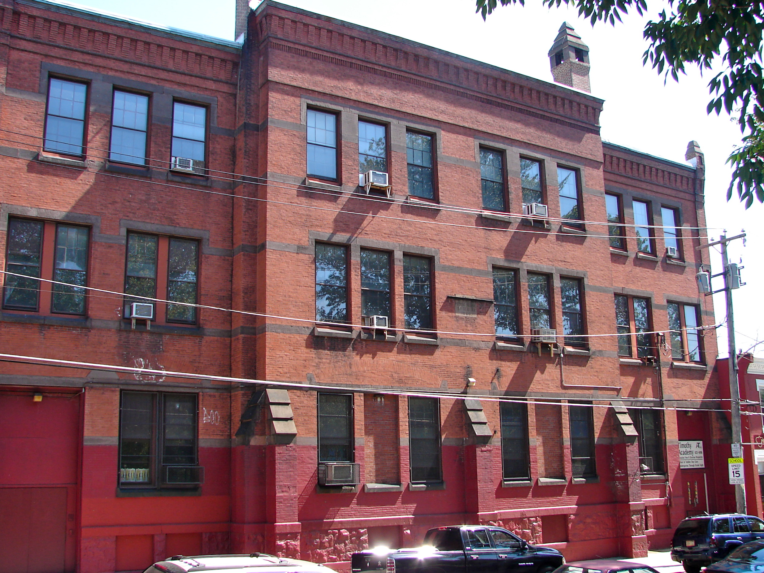 William Adamson School in Philadelphia on the NRHP since November 18, 1988. At 2637–2647 North 4th Street in the West Kensington neighborhood of North Philly. NOw owned by the Timothy Academy.